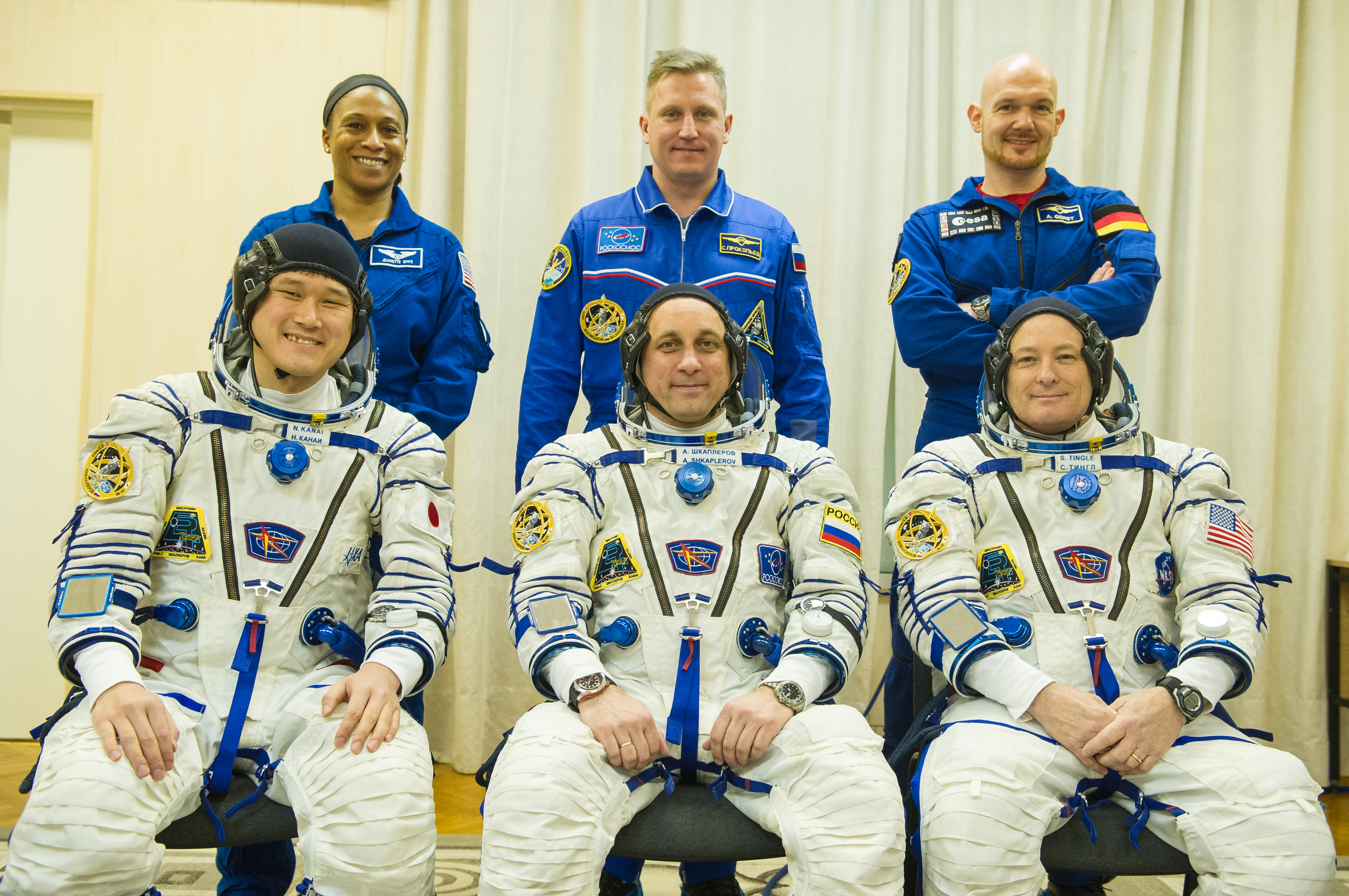 Expedition 54 prime crew members flight engineer Norishige Kanai of the Japan Aerospace Exploration Agency (JAXA), left, Soyuz Commander Anton Shkaplerov of Roscosmos, center, and flight engineer Scott Tingle of NASA, right, pose for a picture with backup crew members of NASA, right, Sergey Prokopev of Roscosmos, center, and Alex Gerst of ESA (European Space Agency), right after donning their Russian Sokol suits in preparation for launch to the International Space Station Sunday, Dec. 17, 2017 in Baikonur, Kazakhstan. Launch of the Soyuz rocket will send Tingle, Kanai, and Shkaplerov on a five month mission aboard the International Space Station.